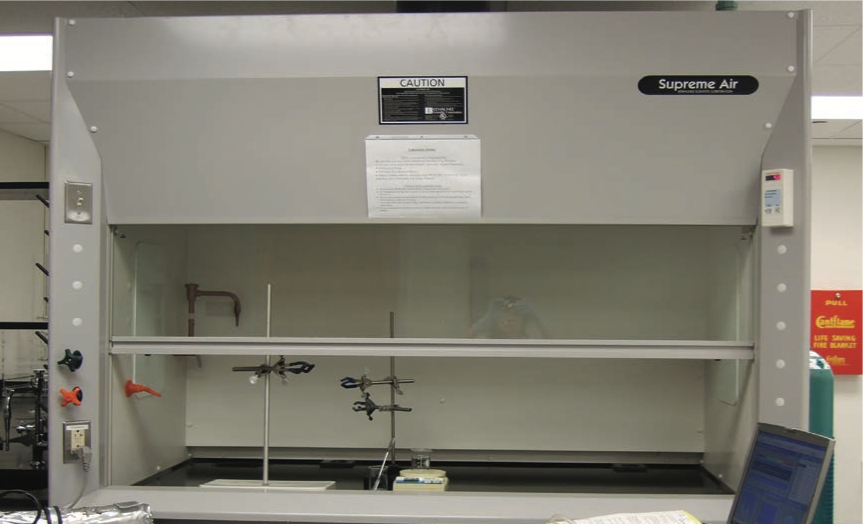 Figure 12. Laboratory constant-velocity hood (note the flow monitor on the sash column). The constant-velocity hood uses a control system to detect the sash position, face velocity and system pressure, and change the fan motor speed or other mechanism, such as mechanical dampers, to increase the air flow when the sash is raised and decrease it when the sash is lowered, thus maintaining a constant face velocity.